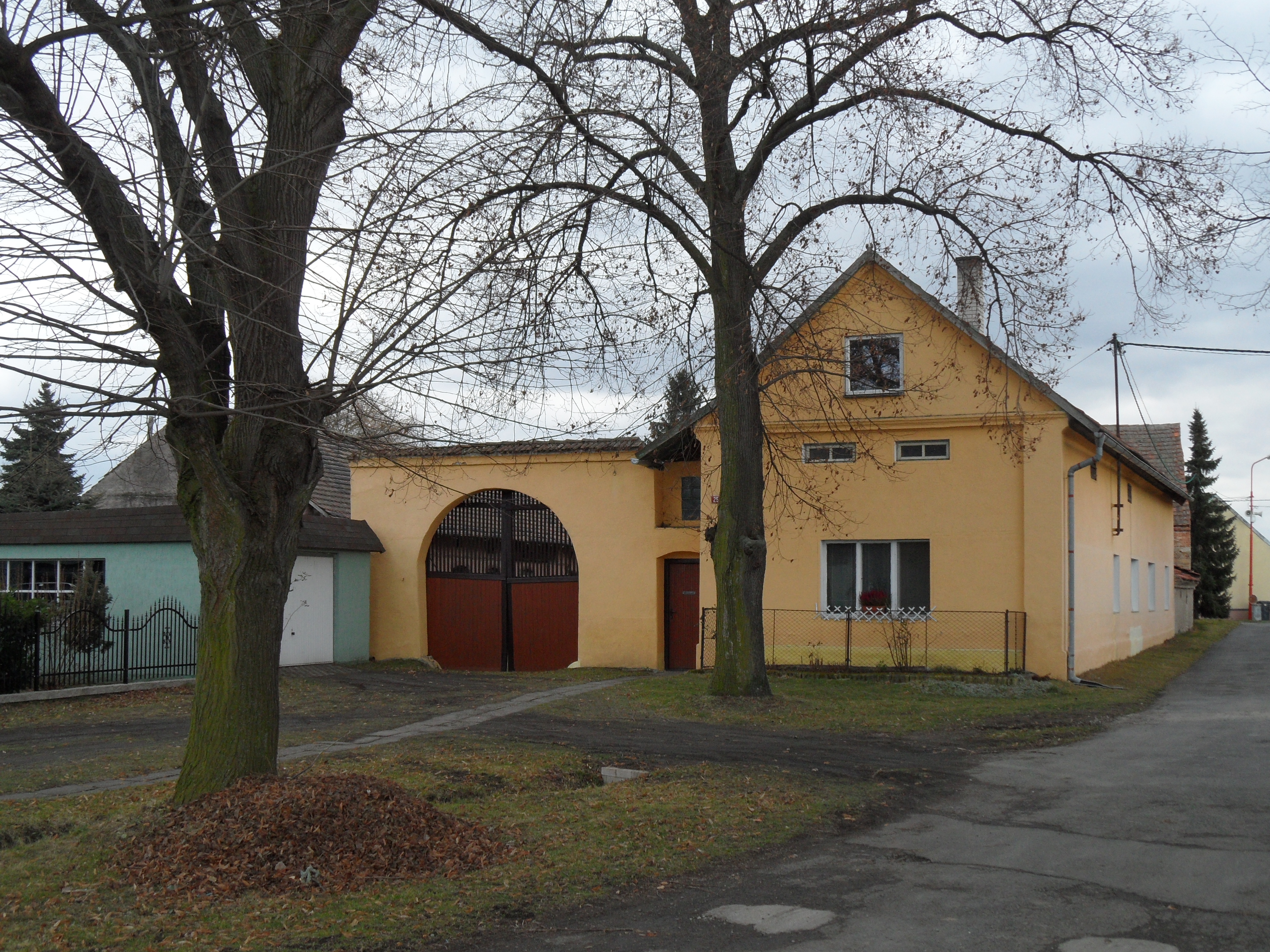 Břežany I C. House with Gate the Centre of Village, Kolín District, the Czech Republic.